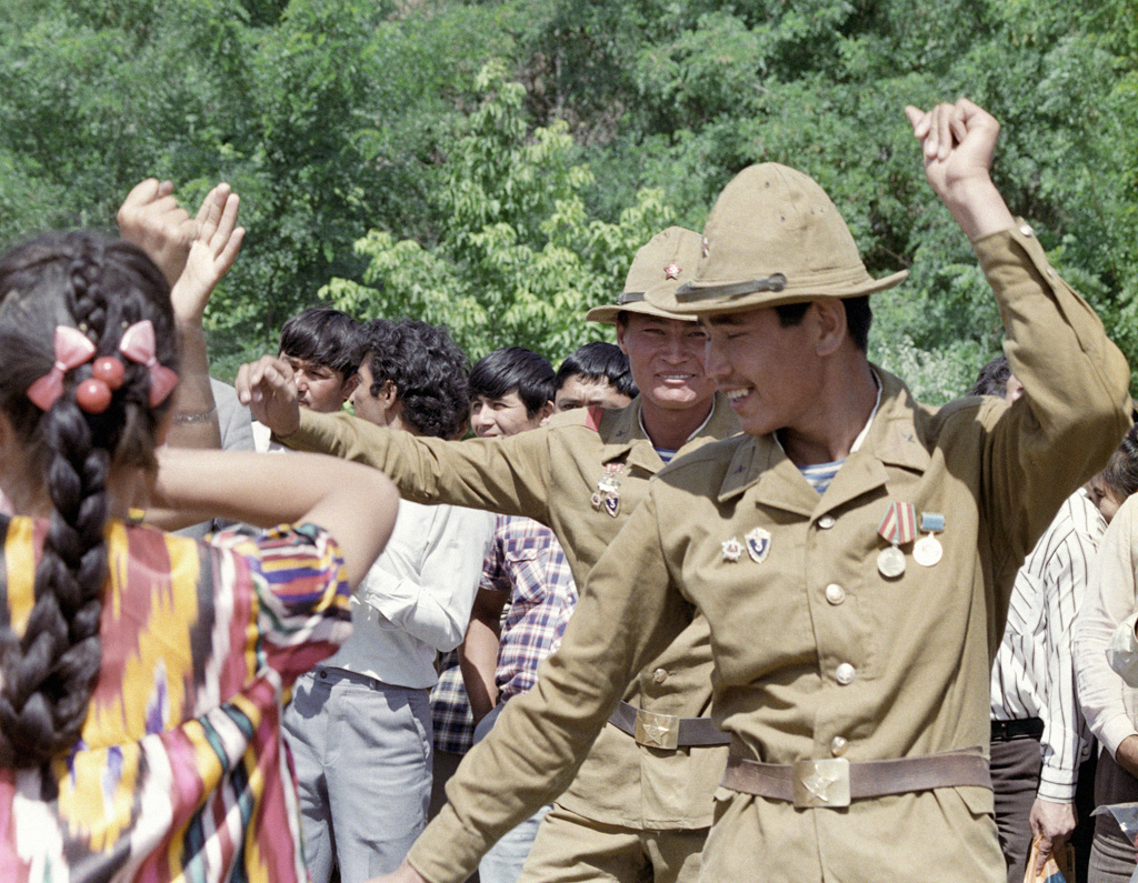 “Welcome home”. Termez townsfolk welcome the Soviet soldiers returning from Afghanistan.